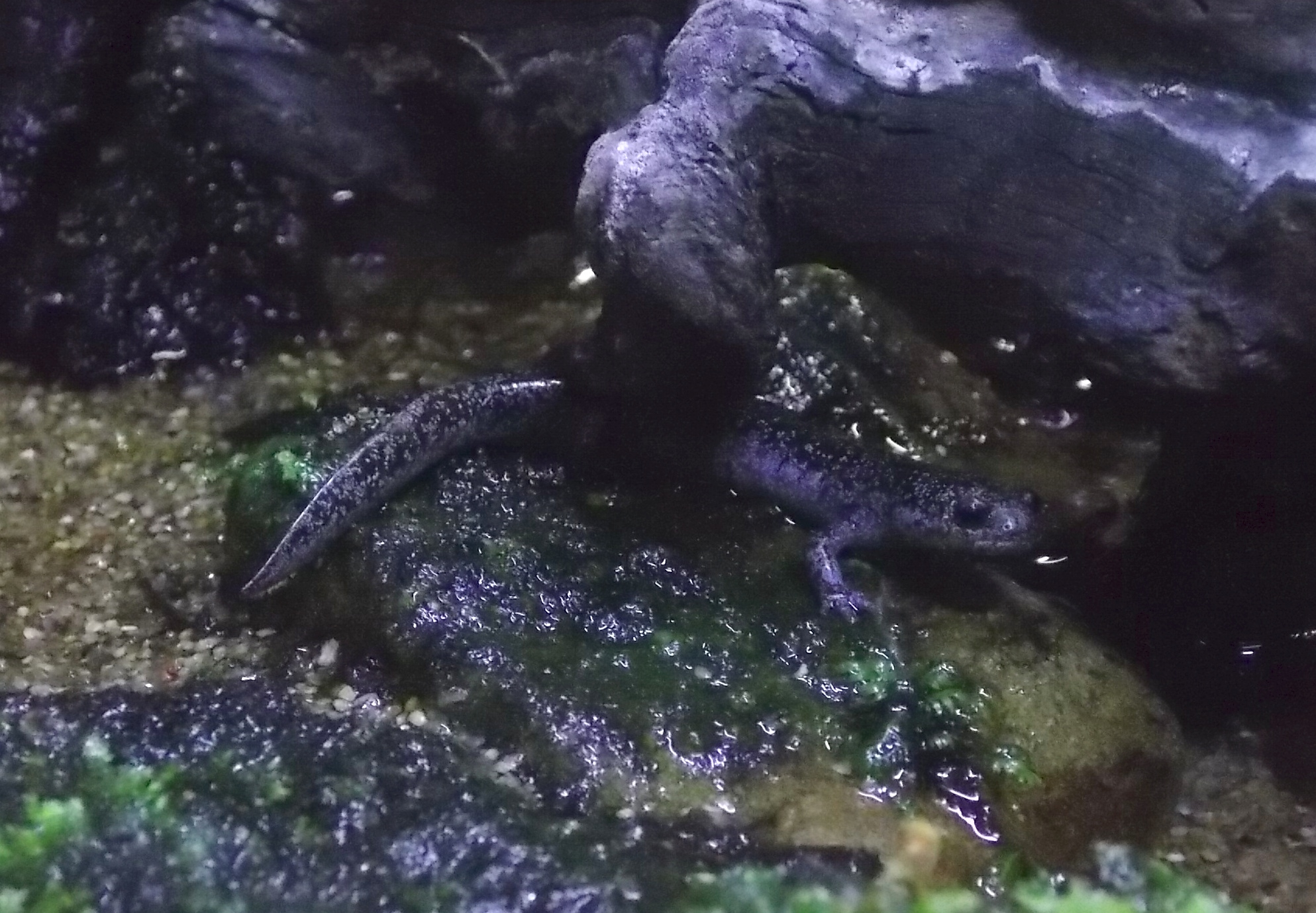 Tokyo Salamander (Hynobius tokyoensis) at the Tokyo Tower Aquarium in Tokyo.